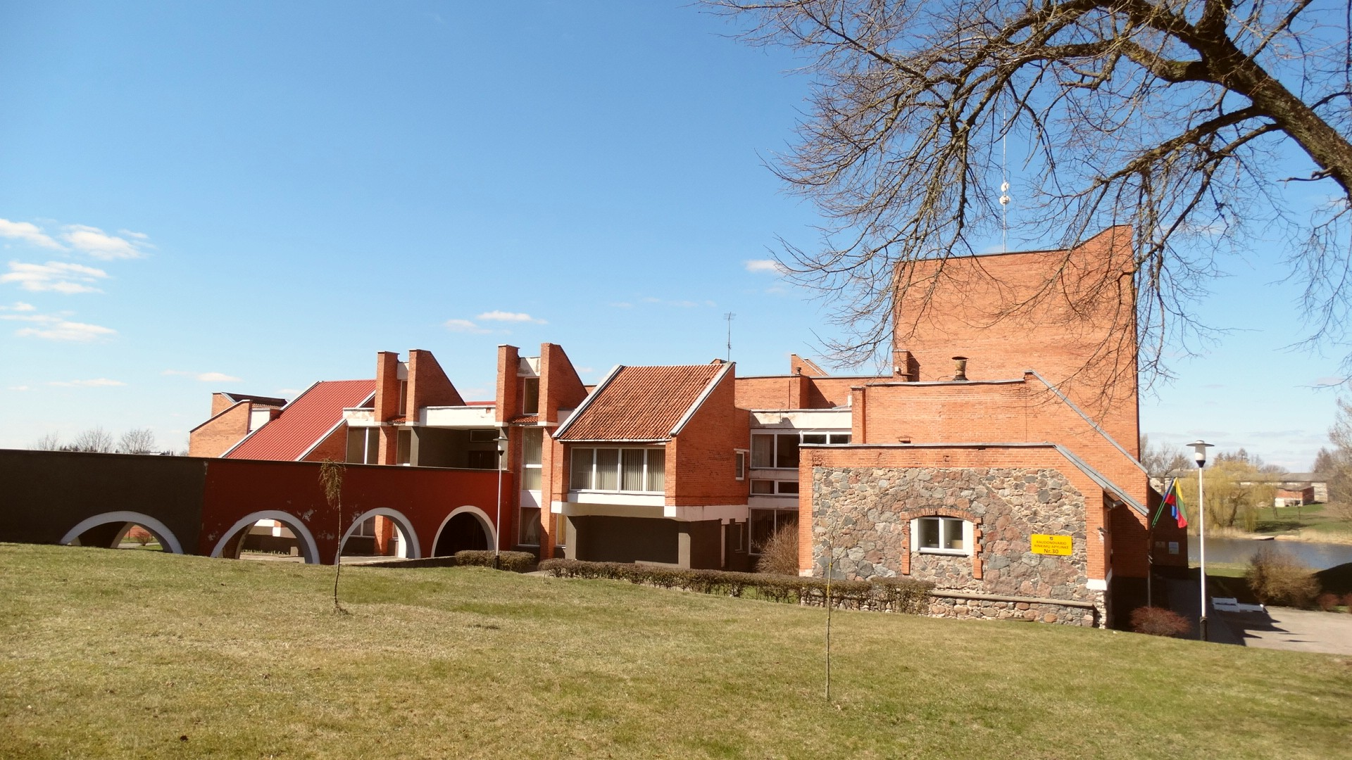 Centre of culture, Raudondvaris, Radviliškis district, Lithuania